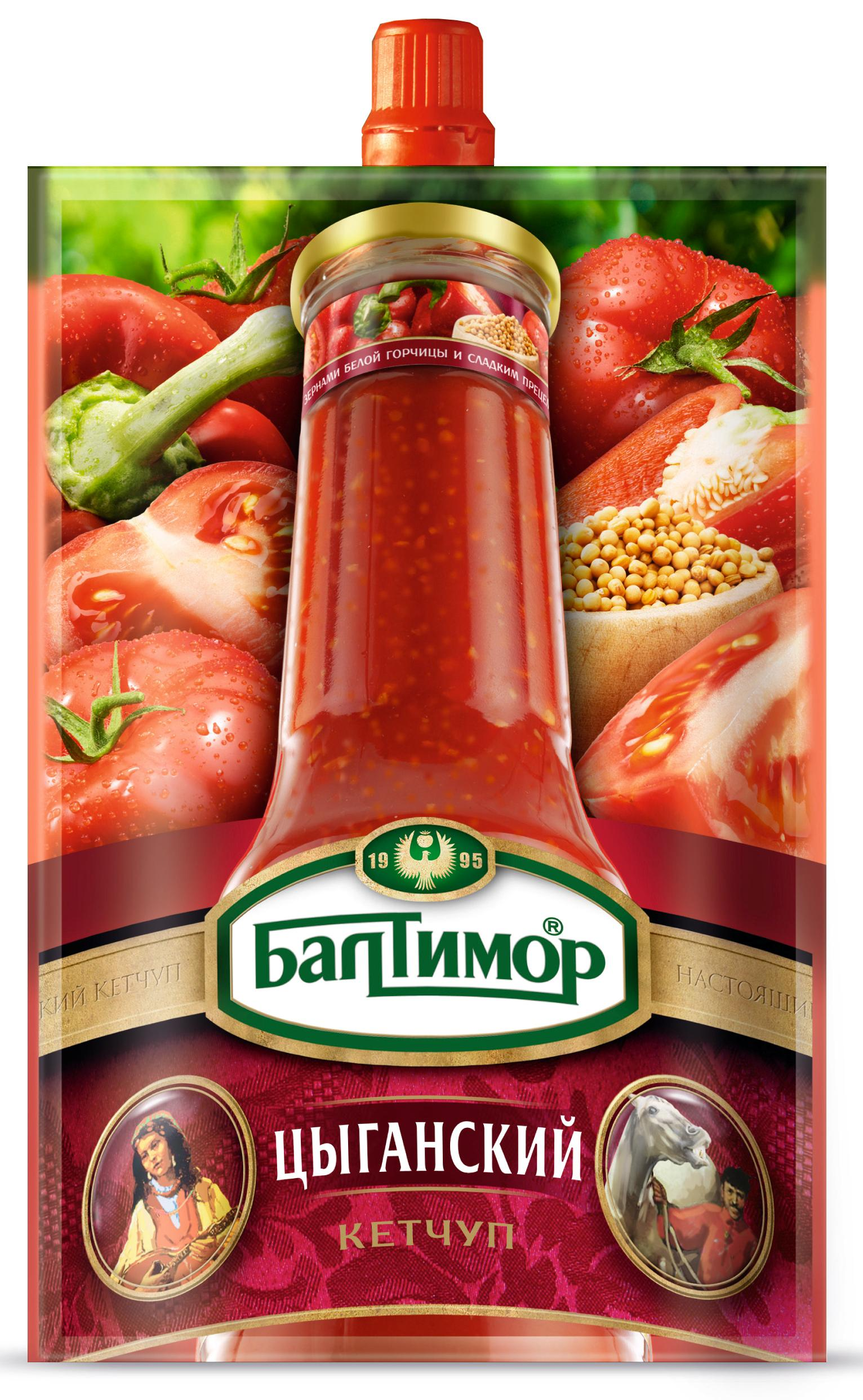 Baltimor pack